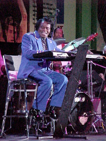 James Brown (2001) during the NBA All Star Game jam session